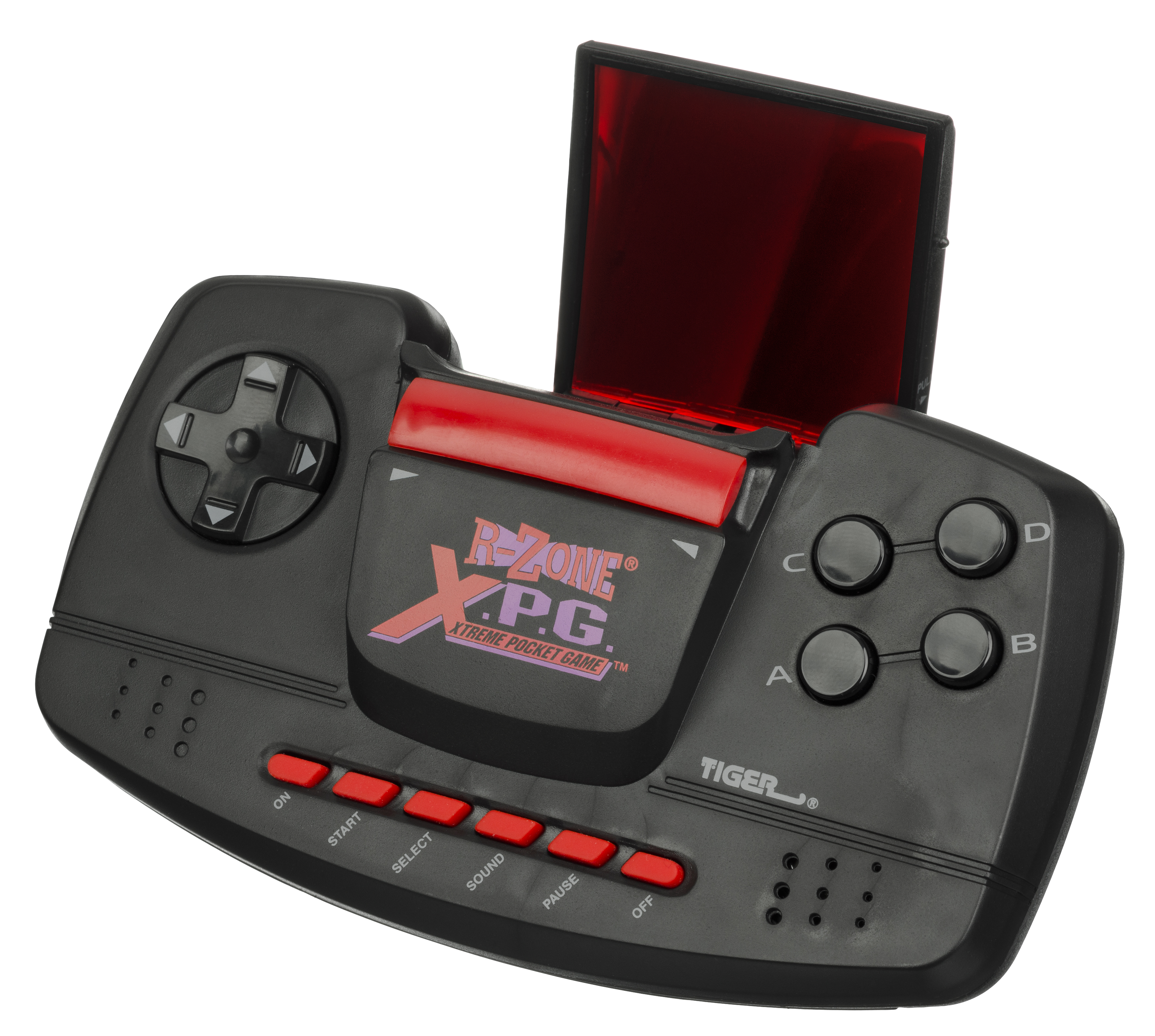 The Tiger R-Zone XPG, a portable game console released in 1995. The system was not much different than Tiger's line of dedicated handheld LCD games, and uses swappable LCD screen cartridges. The XPG is the closest model to a standard handheld game console.